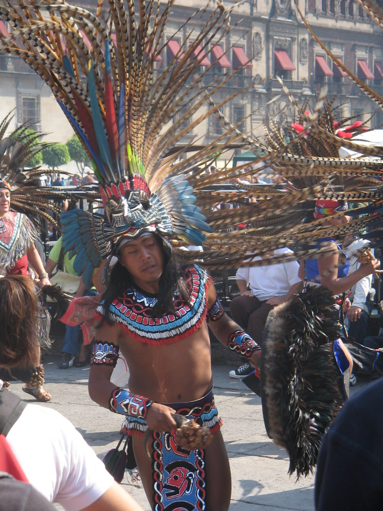 Dancer, Mexico City